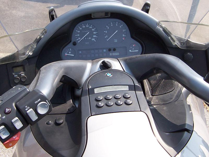 foto bmw k 1200 lt - comandi my foto of 18/06/05